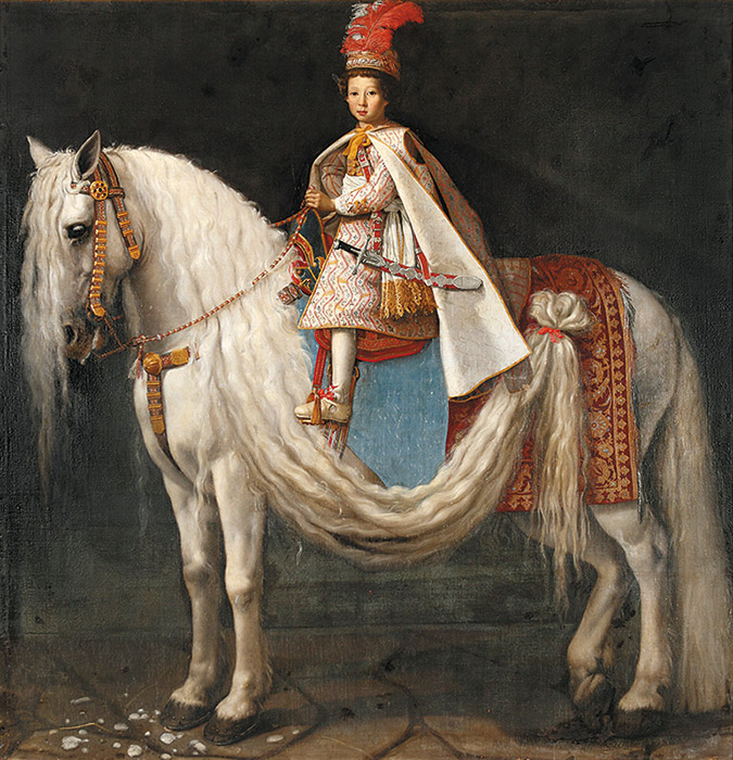 Equestrian portrait of Ferdinando de' Medici in Polish costume.label QS:Len,"Equestrian portrait of Ferdinando de' Medici in Polish costume." label QS:Lpl,"Portret konny Ferdynanda Medyceusza w stroju polskim."